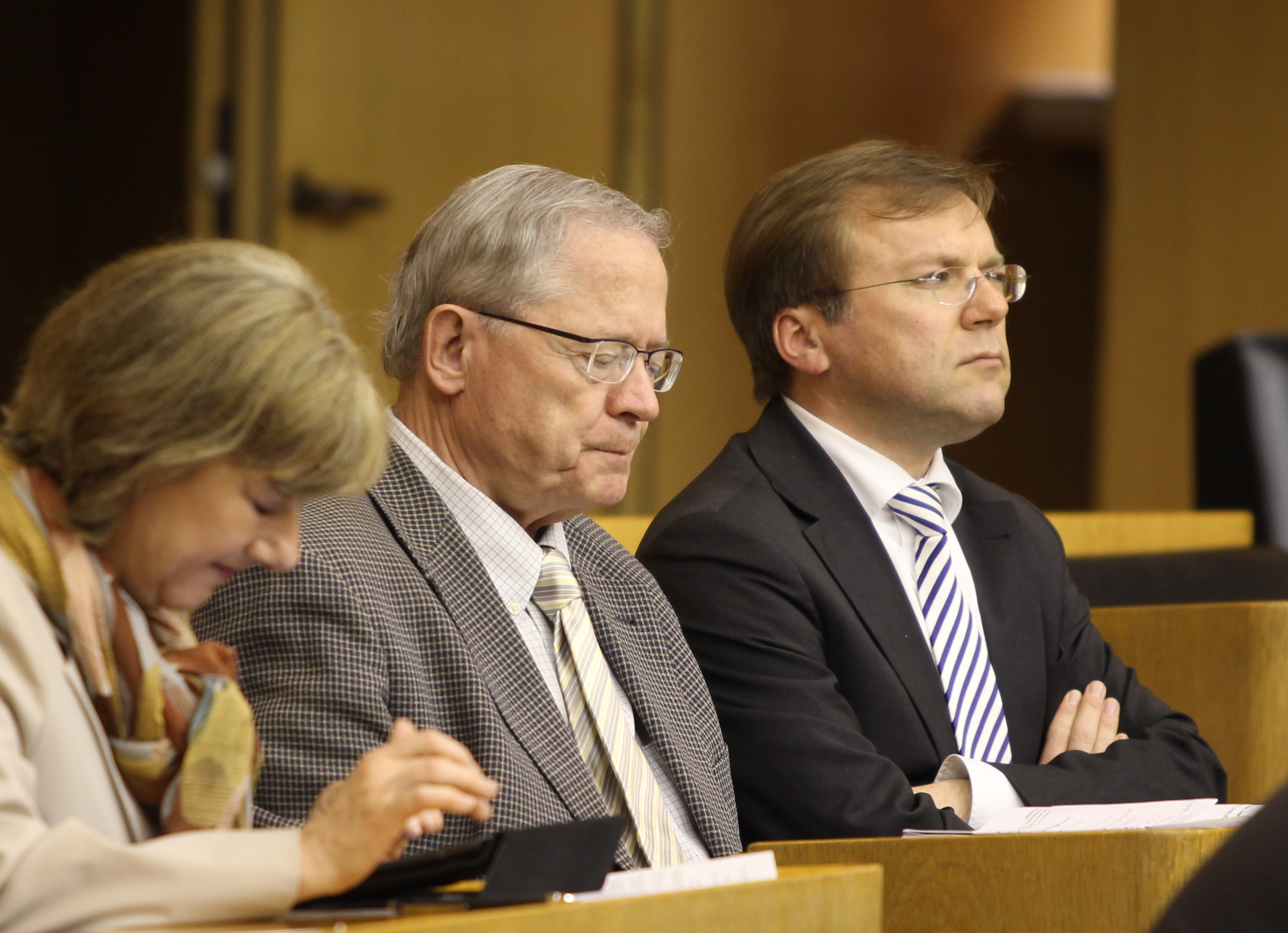 Ulrich Müller (center) and Paul Nemeth (right) in the plenary hall of the state parliament of Baden-Württemberg Wikipedia im Landtag – Baden-Württemberg 15.–16. Mai 2013 in Stuttgart Fragen zur Nachnutzung Wenn Sie Fragen zur Nachnutzung dieses Bildes haben, können Sie sich jederzeit gern an wenden Personality rights warningAlthough this work is freely licensed or in the public domain, the person(s) shown may have rights that legally restrict certain re-uses unless those depicted consent to such uses. In these cases, a model release or other evidence of consent could protect you from infringement claims.